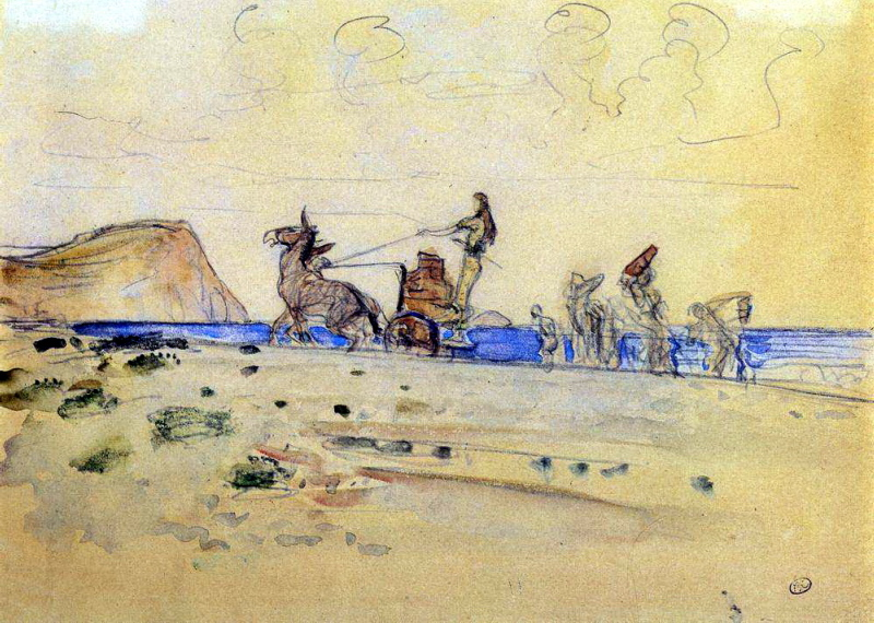 Odysseus and Nausicaa by Valentin Serov